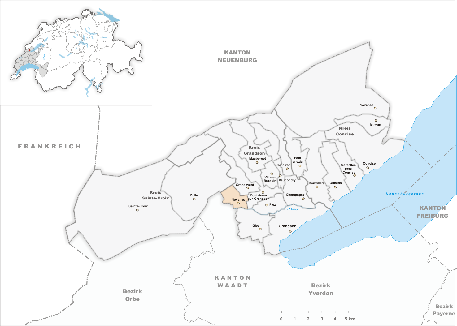 Municipality Novalles